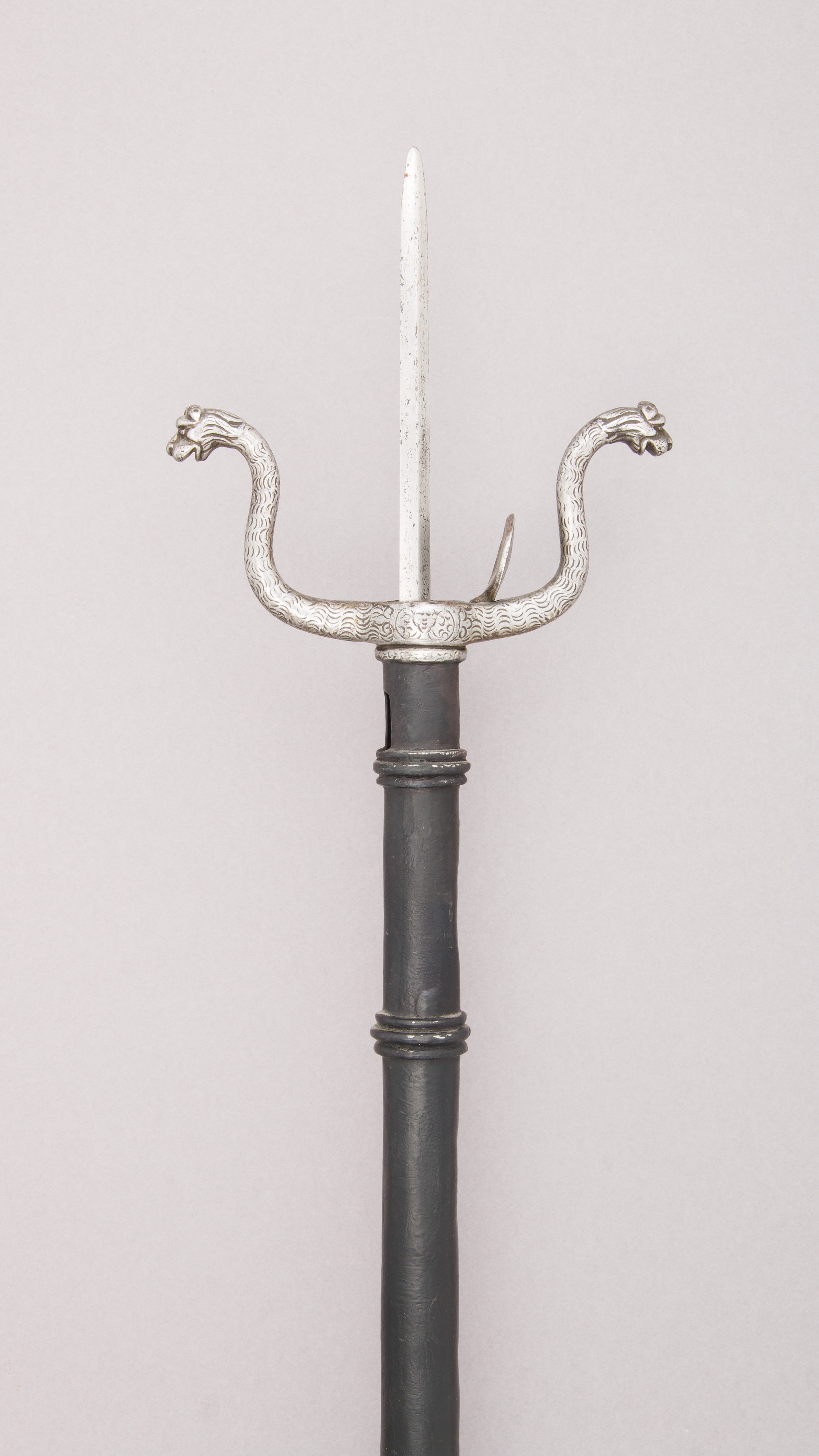 Italian; Staff weapon; Shafted Weapons